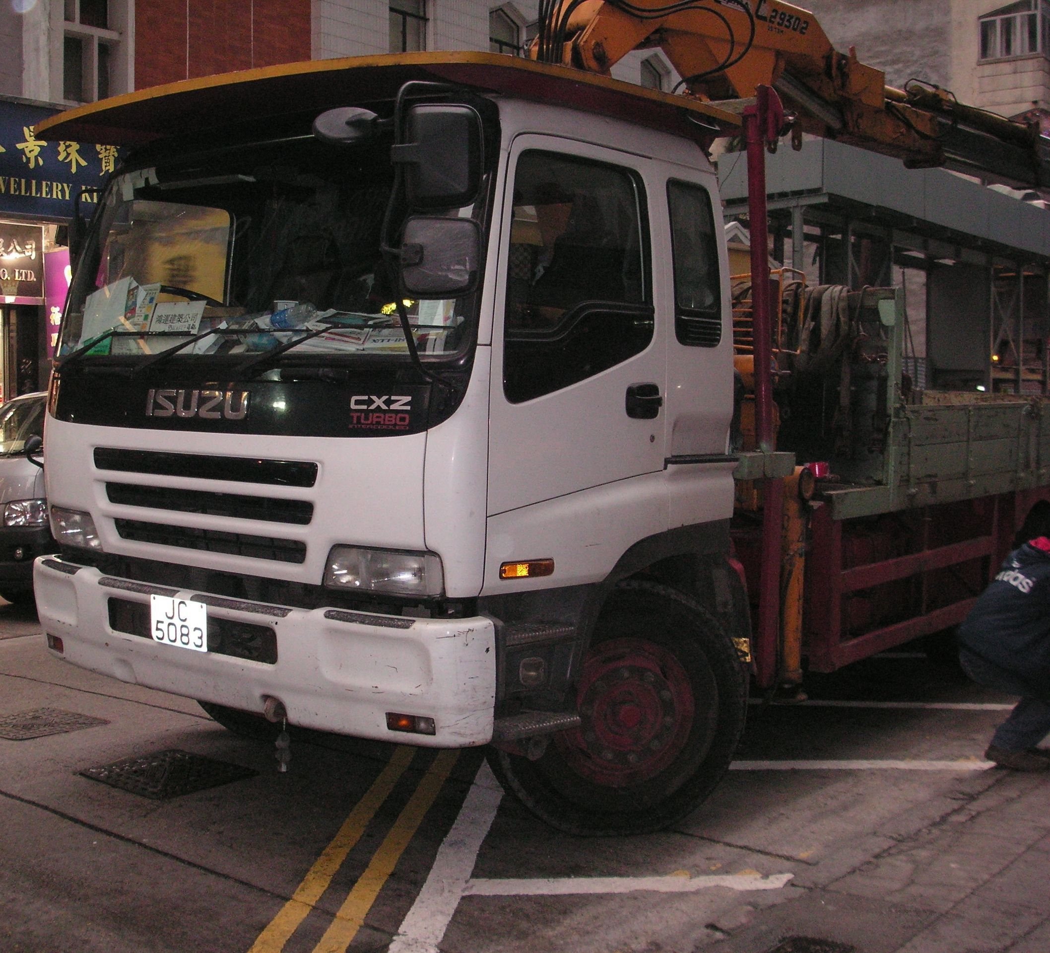 Front half of a 24 tonne Isuzu CXZ truck with crane in Hong Kong, january 2007